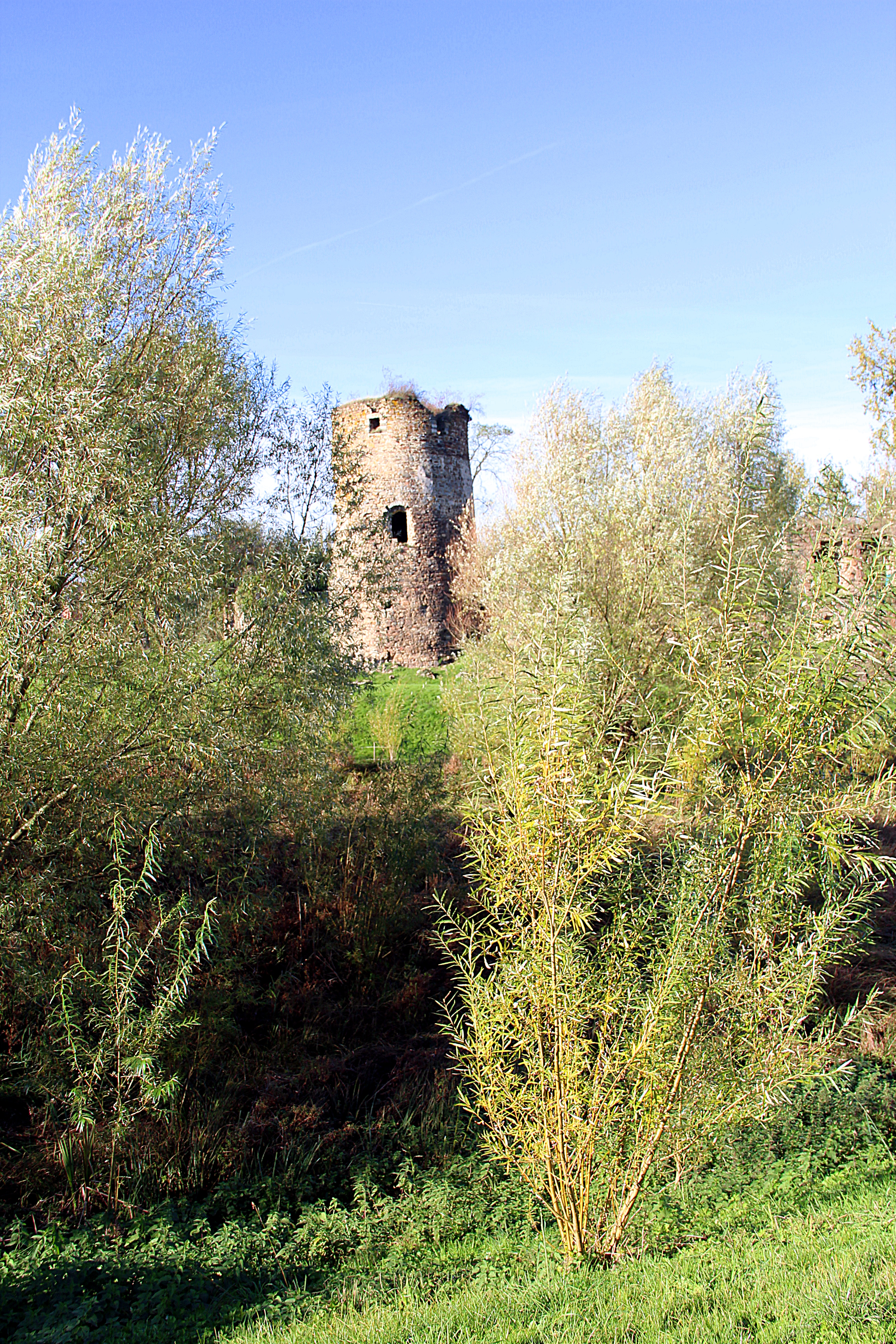 Walhain (Belgium), castle tower (XIIrh century).